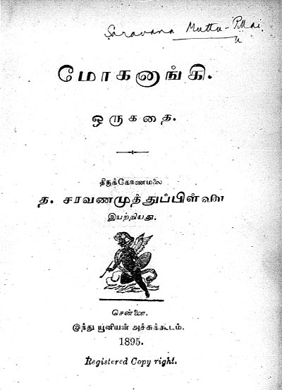 The title page of first edition of Mohanangi novel by T. T. Saravanamuthu Pillai. File is a photo copy of the original page and edited with Adobe Photoshop 7.0